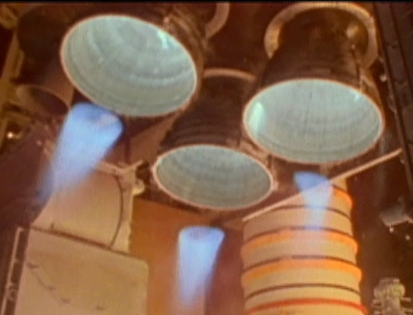 Image of STS-93 SSMEs shortly after liftoff showing the hydrogen leak in the right engine causing a bright streak on the nozzle's interior wall and distortion of blue shock diamond in the exhaust stream.